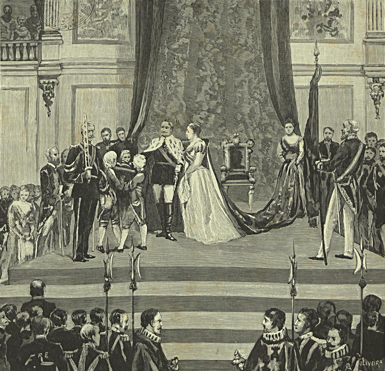 The swearing-in of King Carlos I of Portugal at Parliament (December 1889).